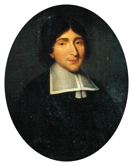 Portrait of Pierre Nicole (1625-1695)